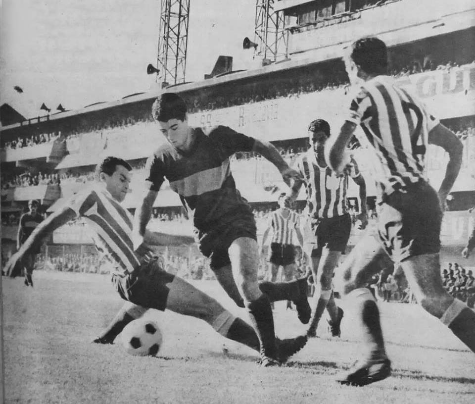 Boca Juniors player Angel C. Rojas (Rojitas) dribbling players of unidentified team (Racing Club or Estudiantes LP) during a game played at "La Bombonera".